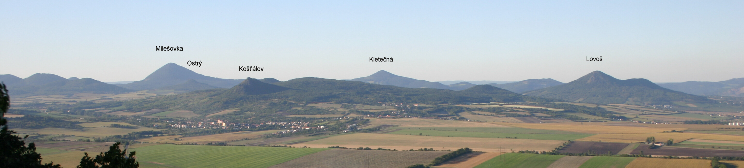 Western part of České středohoří, Czech Republic. A view from Házmburk hill towards north.